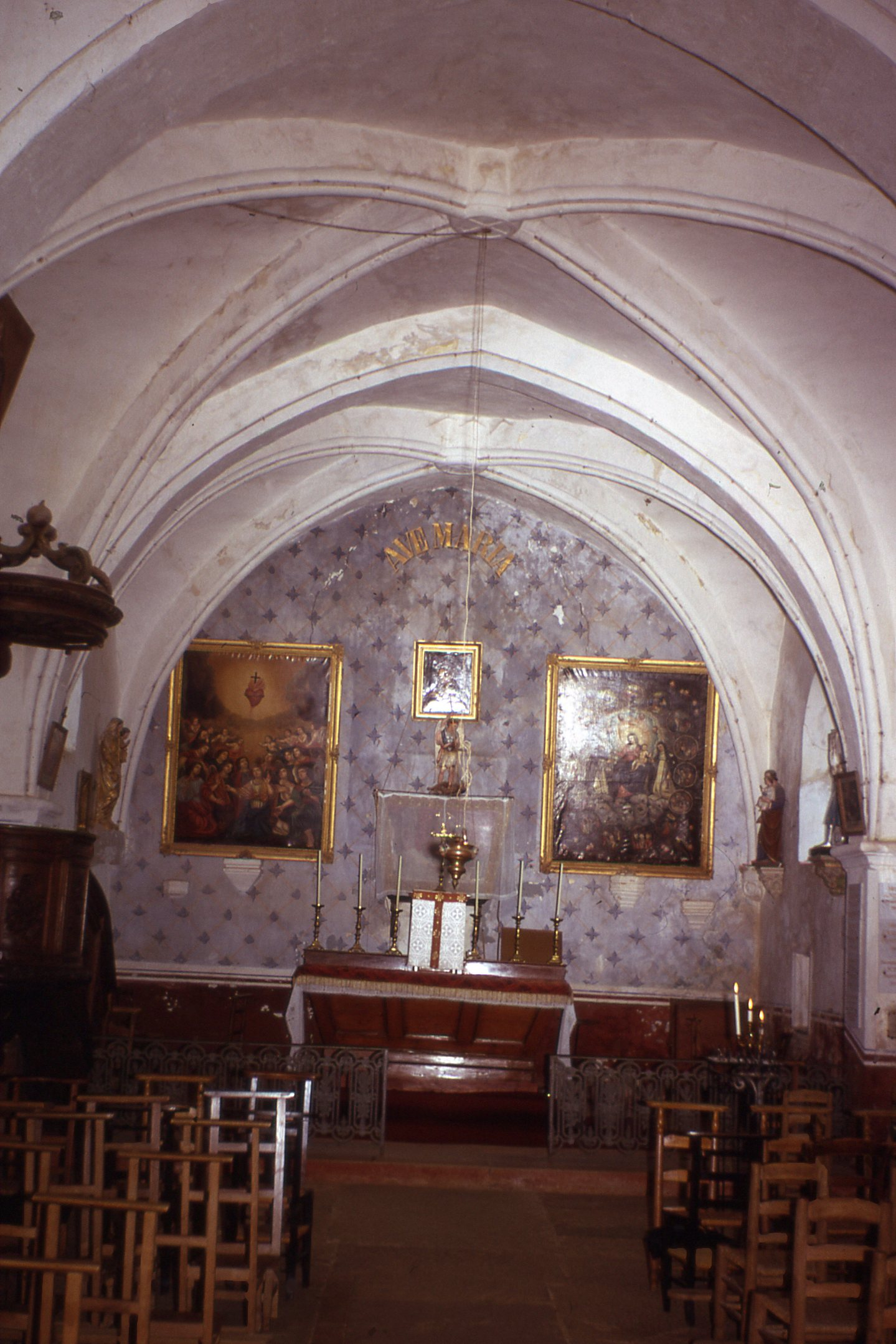 Chatel (Gizia) church